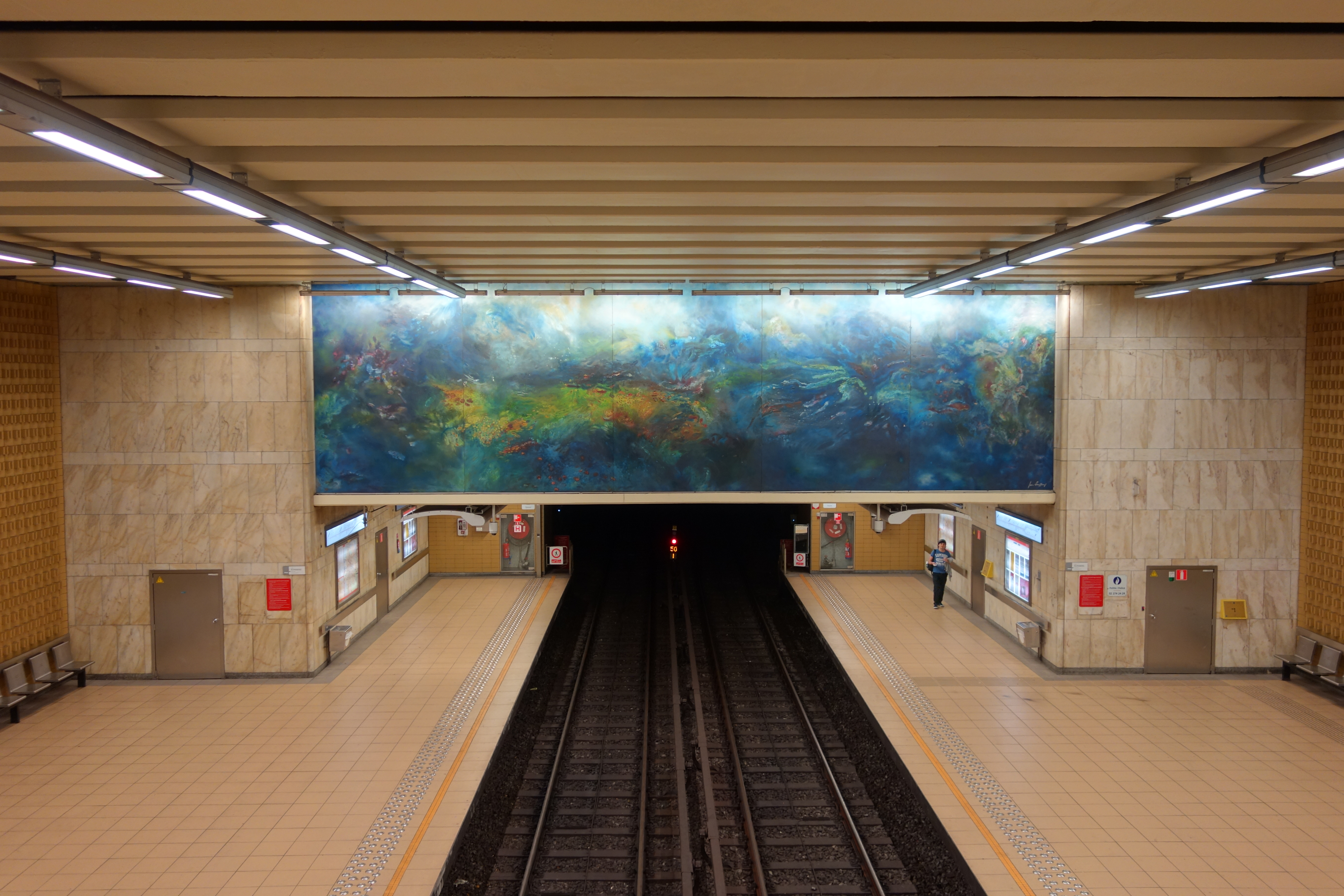 Etangs Noir metro station at Molenbeek Saint-Jean, Brussels